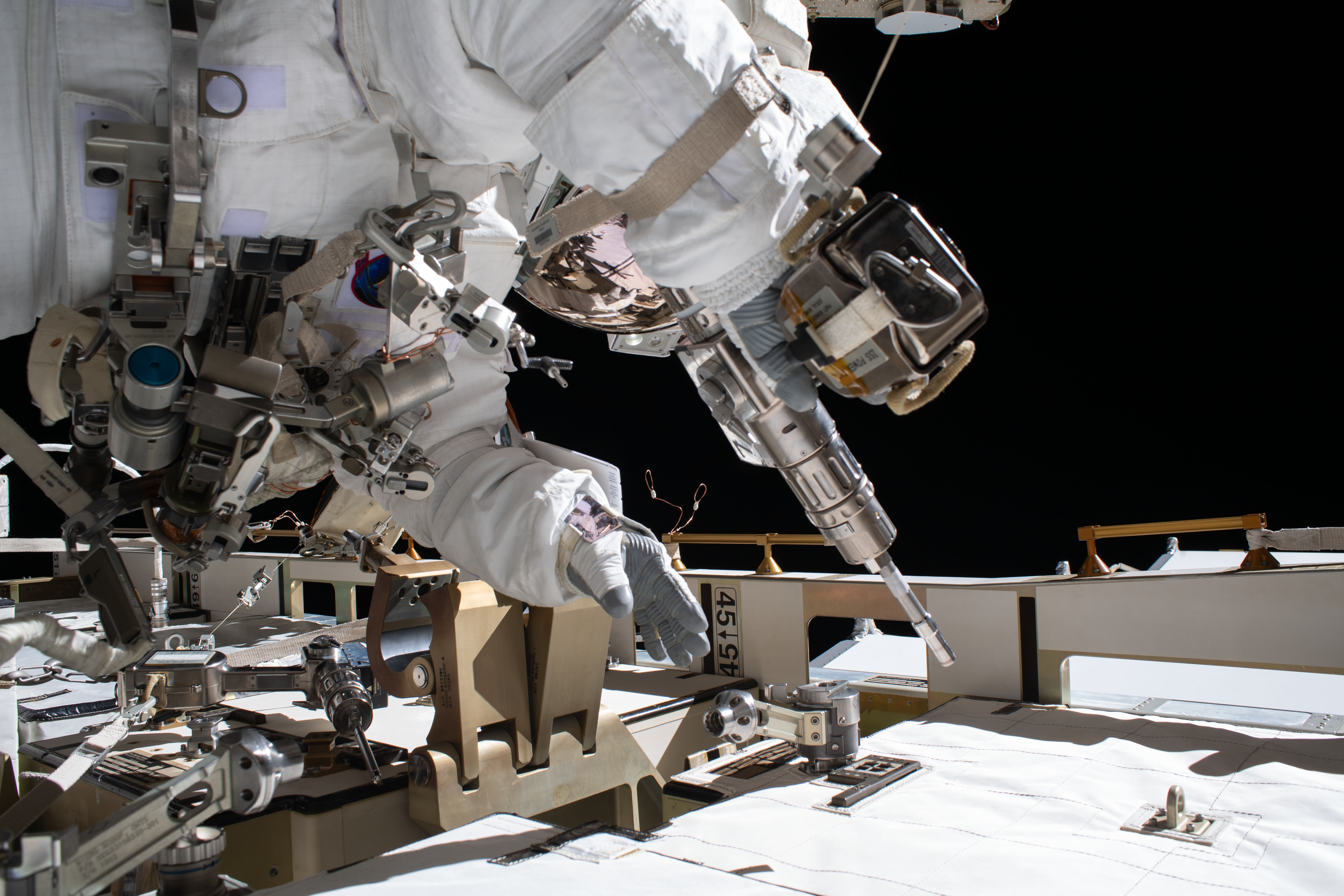 iss063e034013 (July 1, 2020) --- NASA astronaut and Expedition 63 Flight Engineer Bob Behnken works during a six-hour and one-minute spacewalk to swap an aging nickel-hydrogen battery for a new lithium-ion battery on the International Space Station's Starboard-6 truss structure. Behnken is pictured holding a pistol grip tool he used to remove and attach bolts that hold the batteries in place.